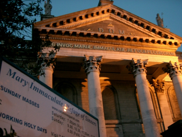 Mary Immaculate Refuge Of Sinners on Lower Rathmines Road.